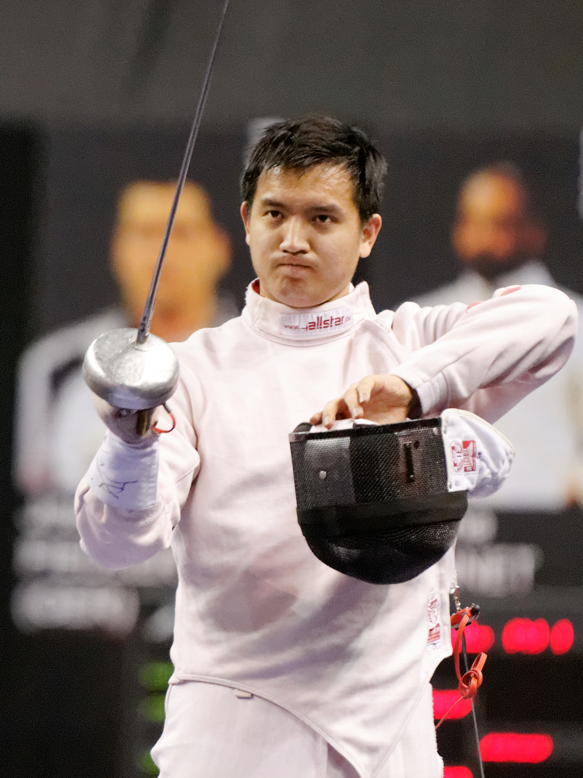 1/16 finals of the Challenge Réseau Ferré de France–Trophée Monal 2012: Li Guojie puts back his helmet on during his fight against Rubén Limardo.